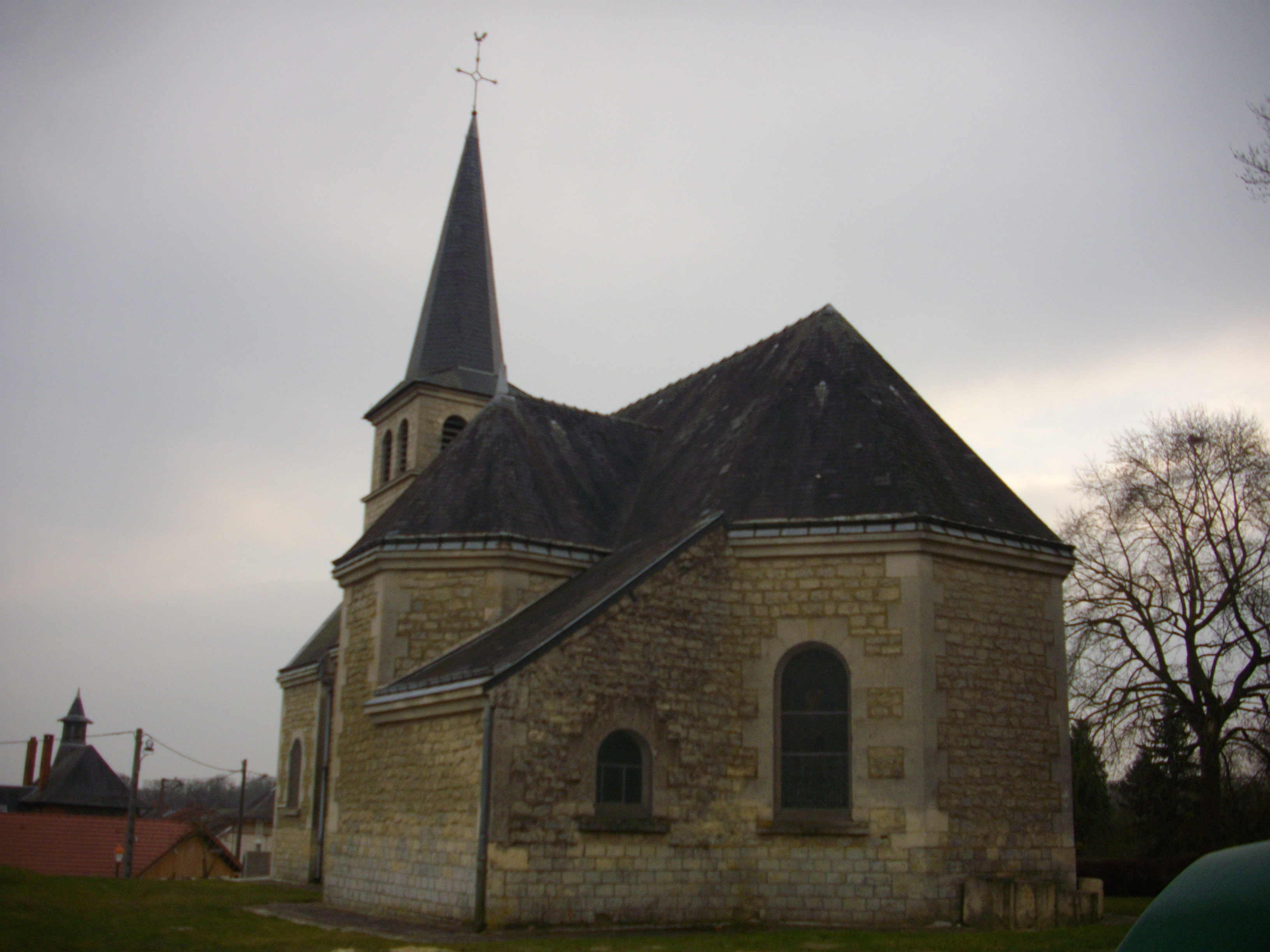 Church of Thil (Marne, France)